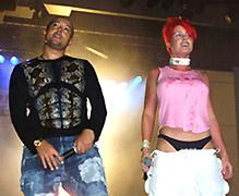 Lene Nystrom and Rene Dif from Aqua, performing live.